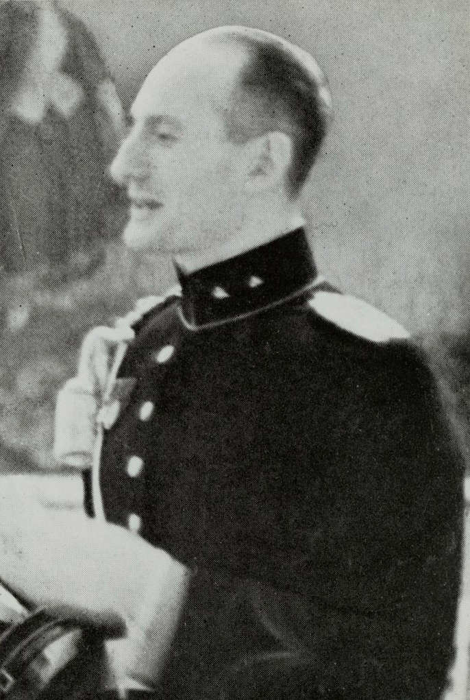 Lieutenant Dirk Klop, neutral observer at secret meetings between British officers Captain Sigismund Payne-Best and Major Henry Stevens on one side, and undercover German officers on the other side, was killed on November 9, 1939 during an exchange of fire with a German raiding-squad at a Dutch-German border near Venlo. The raiding-squad captured the two British officers and their Dutch driver. This border incident became known under the name 'Venlo Incident'.